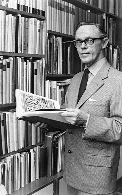 Photograph of the Finnish architect and writer Nils Erik Wickberg (1909–2002).